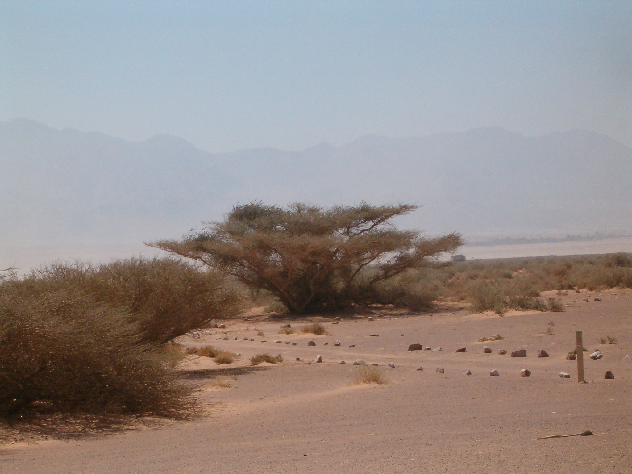 Acacia tortilis, in the Sahel.